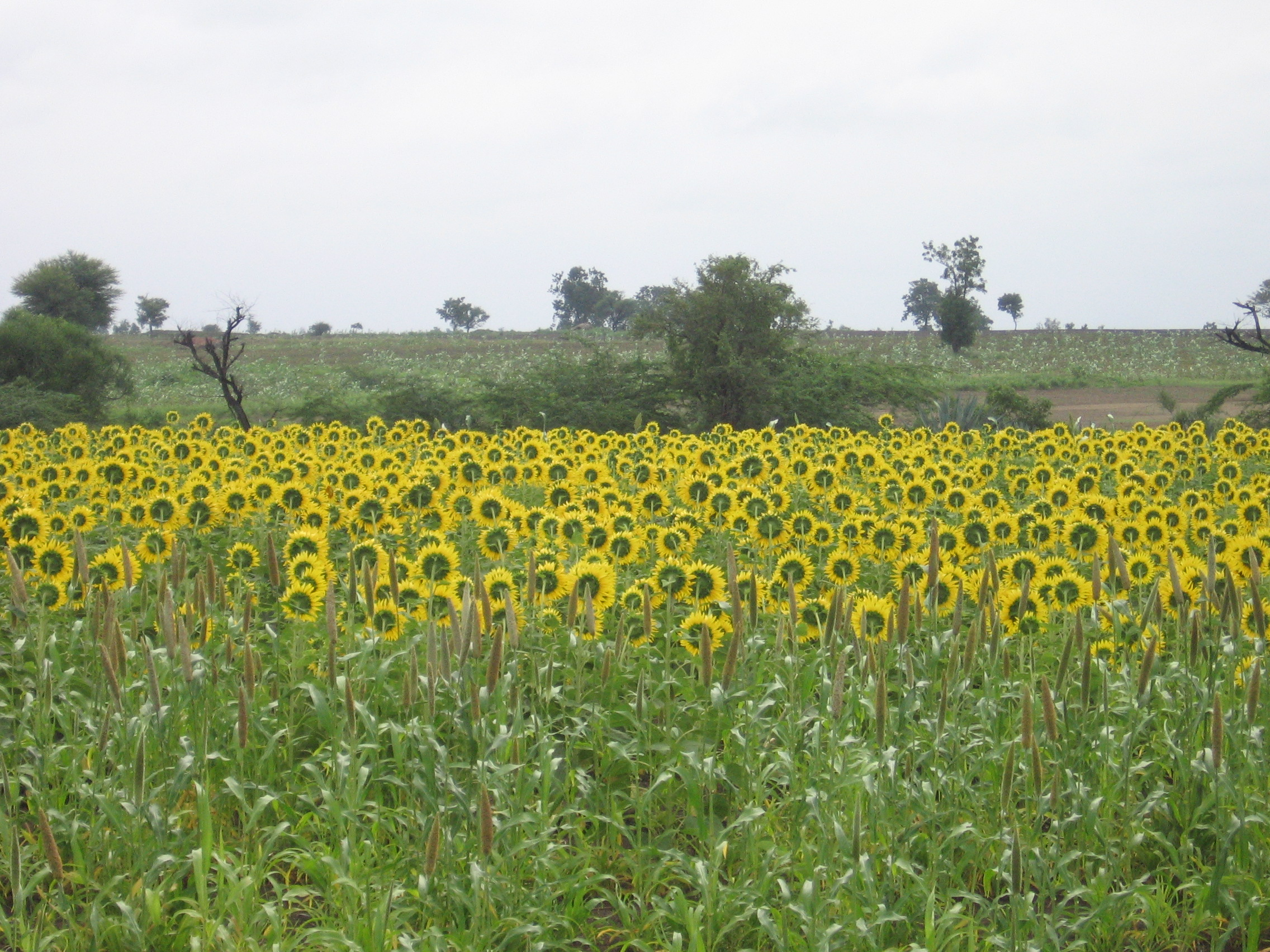 View of a Sunflower field in Karnataka, India ಕನ್ನಡ: ಸೂರ್ಯಕಾಂತಿ ಹೊಲದ ಒಂದು ನೋಟ